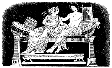 Ancient Greek sofa for resting